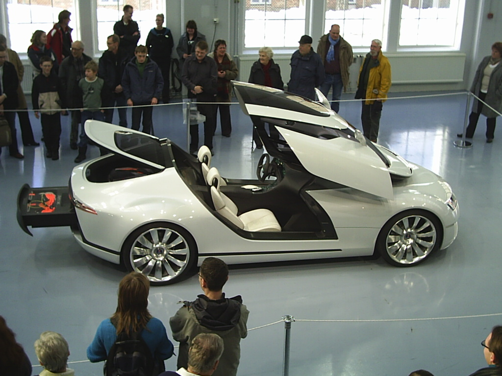 SAAB AERO X shown 25 March 2006 at the Saab car museum in Trollhättan, Sweden